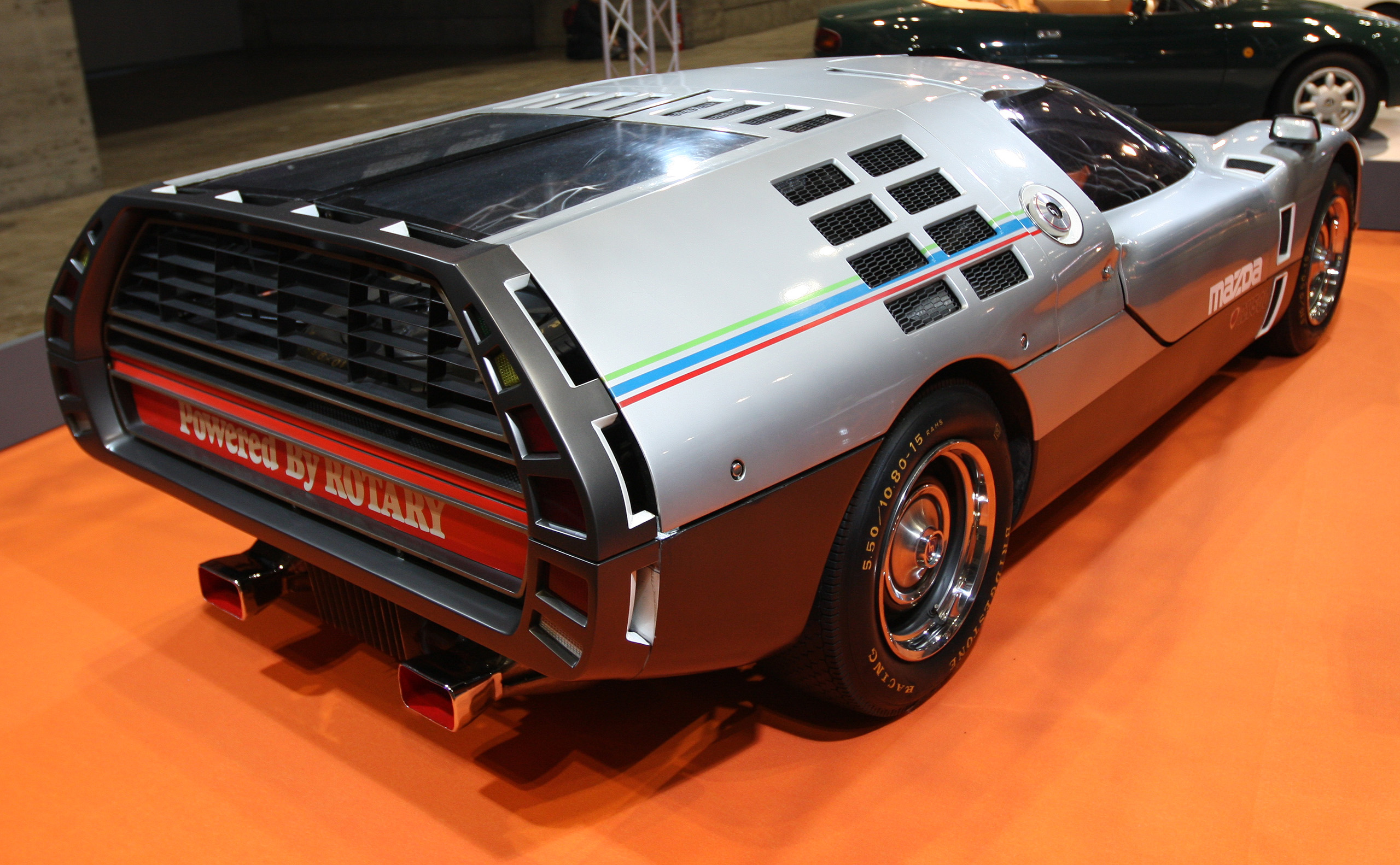 Tokyo Auto Salon 2009: Mazda RX-500 (restored car)